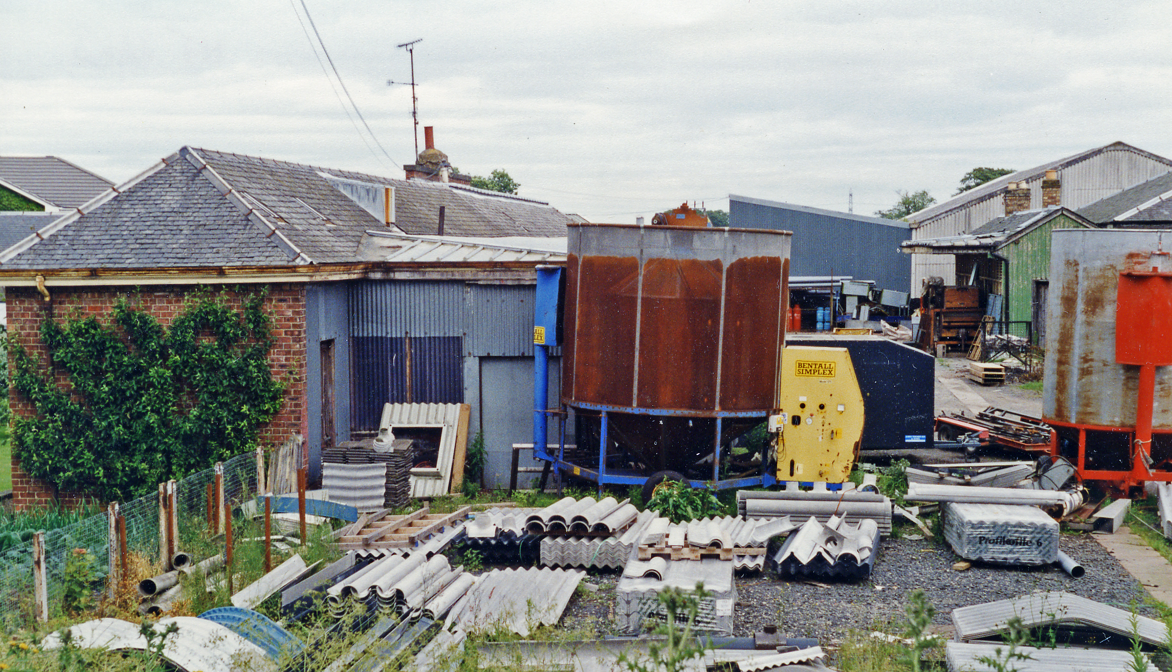 Duns: site/remains of station, 1997. View eastward, towards Reston: ex-NBR Reston - Duns - Earlston - Greenlaw - St Boswells line. The line westward from here to Earlston was severed for many months by the effects of the Great Borders Floods of 12/8/48, but freight traffic was later restored - until complete closure from 19/7/65. The station and the line to Reston remained for passenger services until 10/9/51 and for goods until 7/11/66.